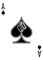 A playing card: The ace of spades from a poker deck.